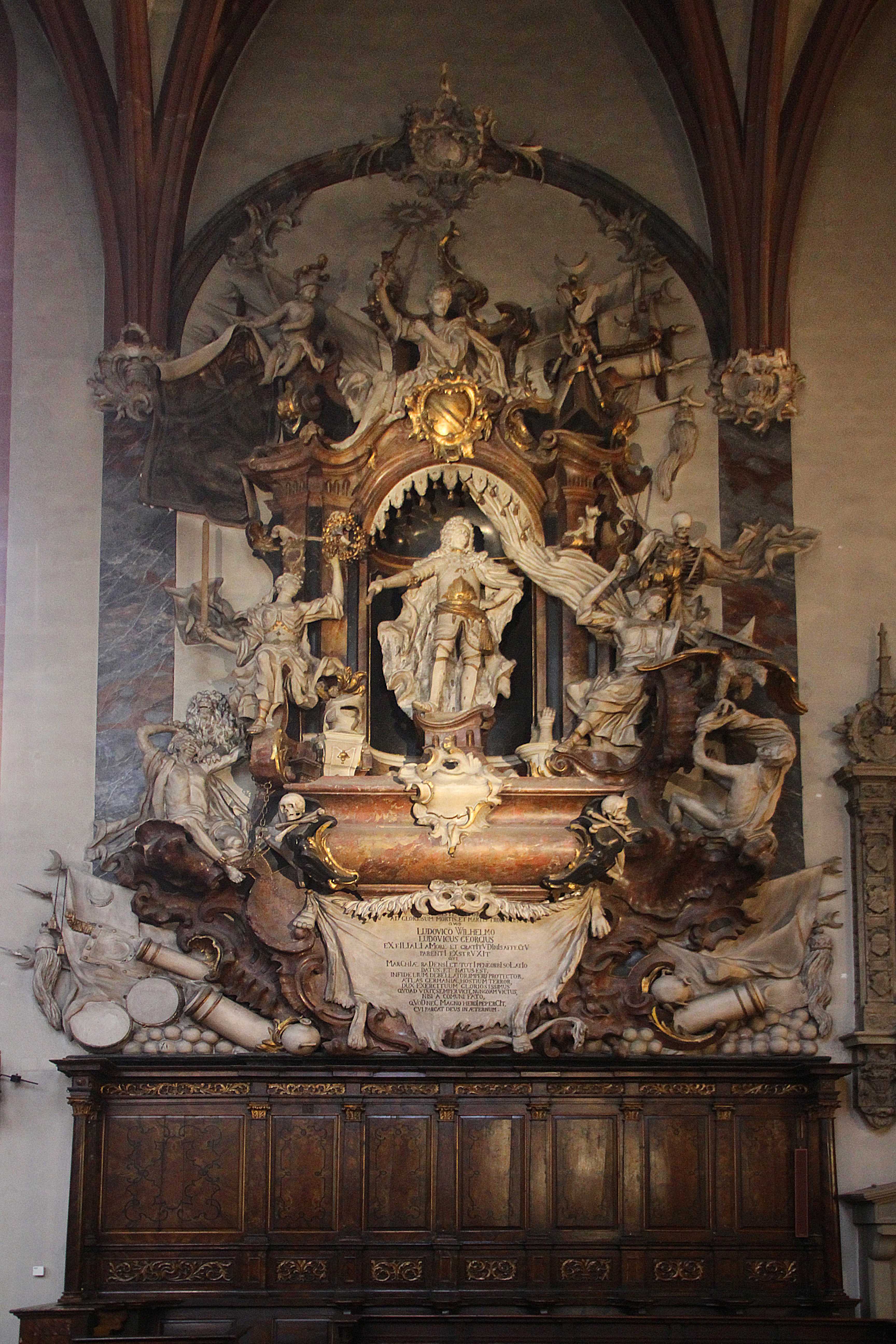 Epitaph of Margrave Louis William in the Stiftskirche Baden-Baden.